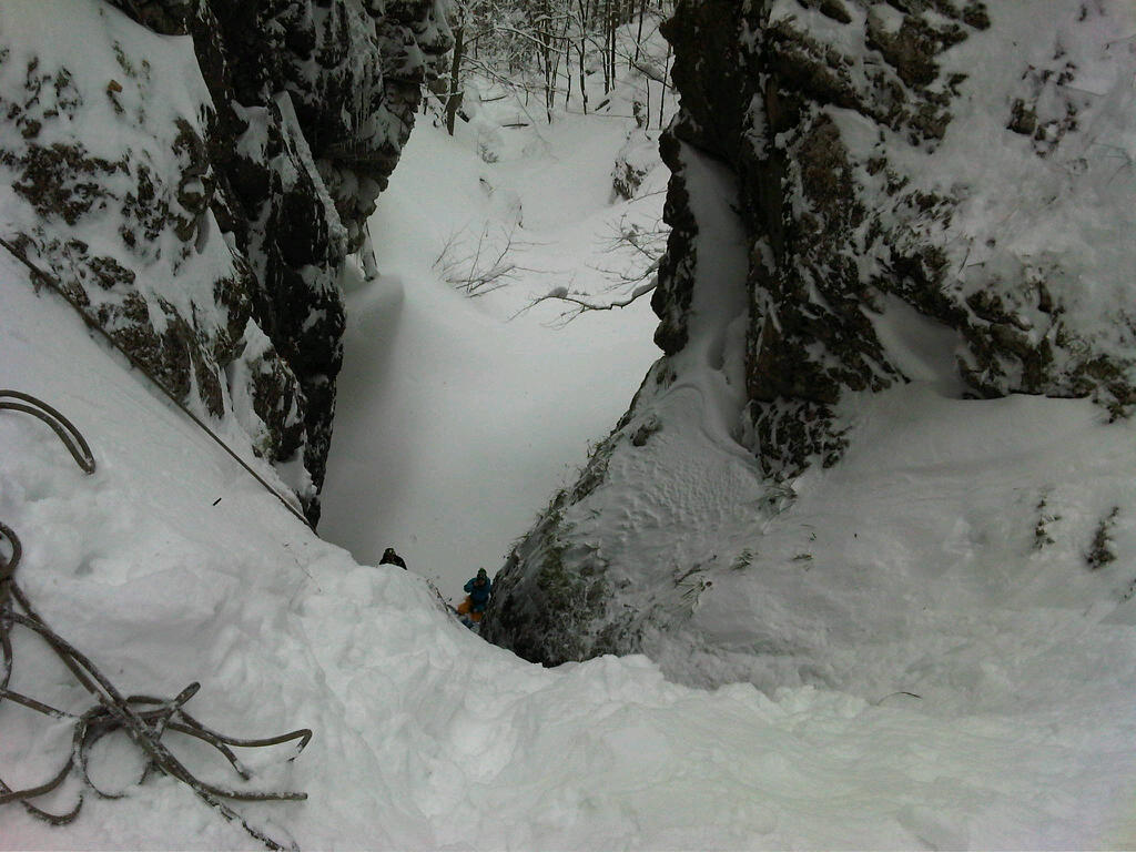 Lipnerova rizňa upper viewSlovenčina: Lipnerova rizňa horný náhľad